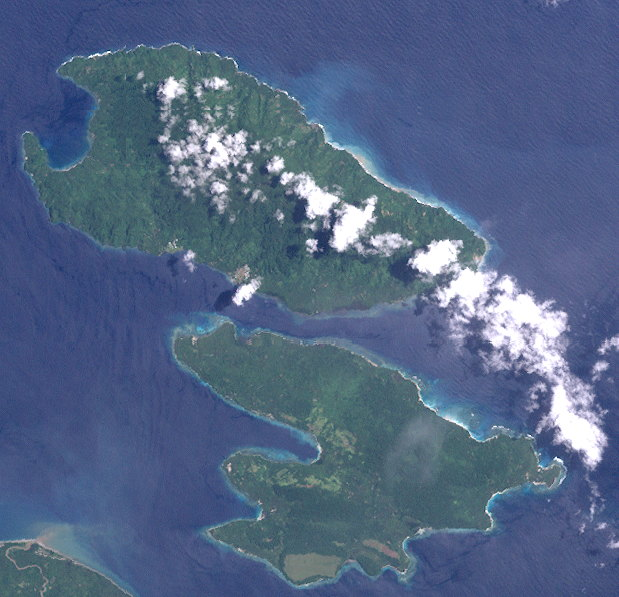 This Satellite-Image (Landsat 7) shows the island Kairiru (north) and the island Muschu (south)